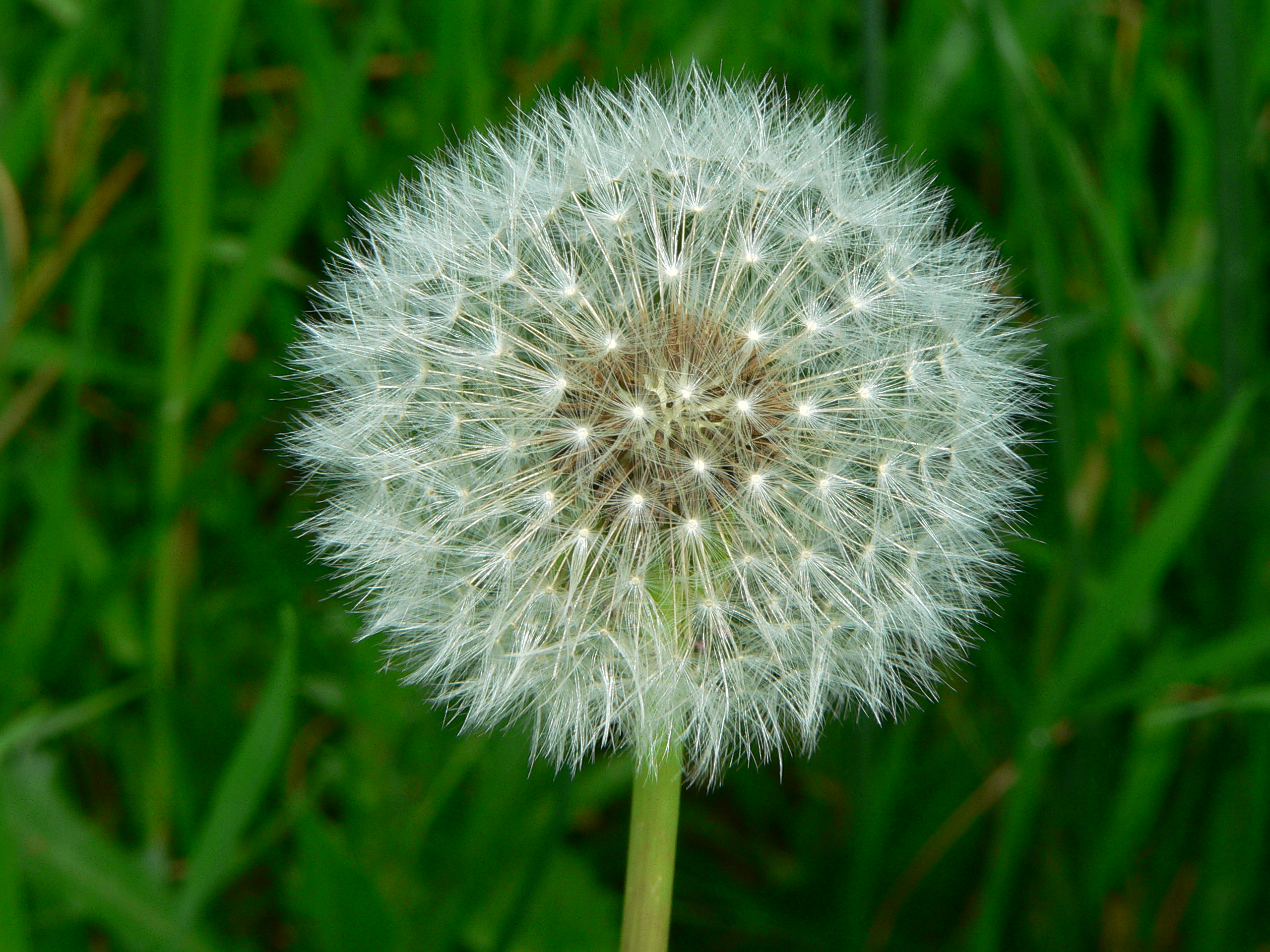 Dandelion seed head - taken in Southwest Ohio.